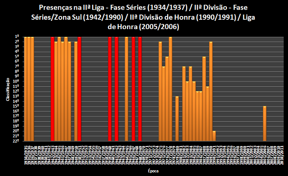 FC Barreirense Portuguese IIº Division positions